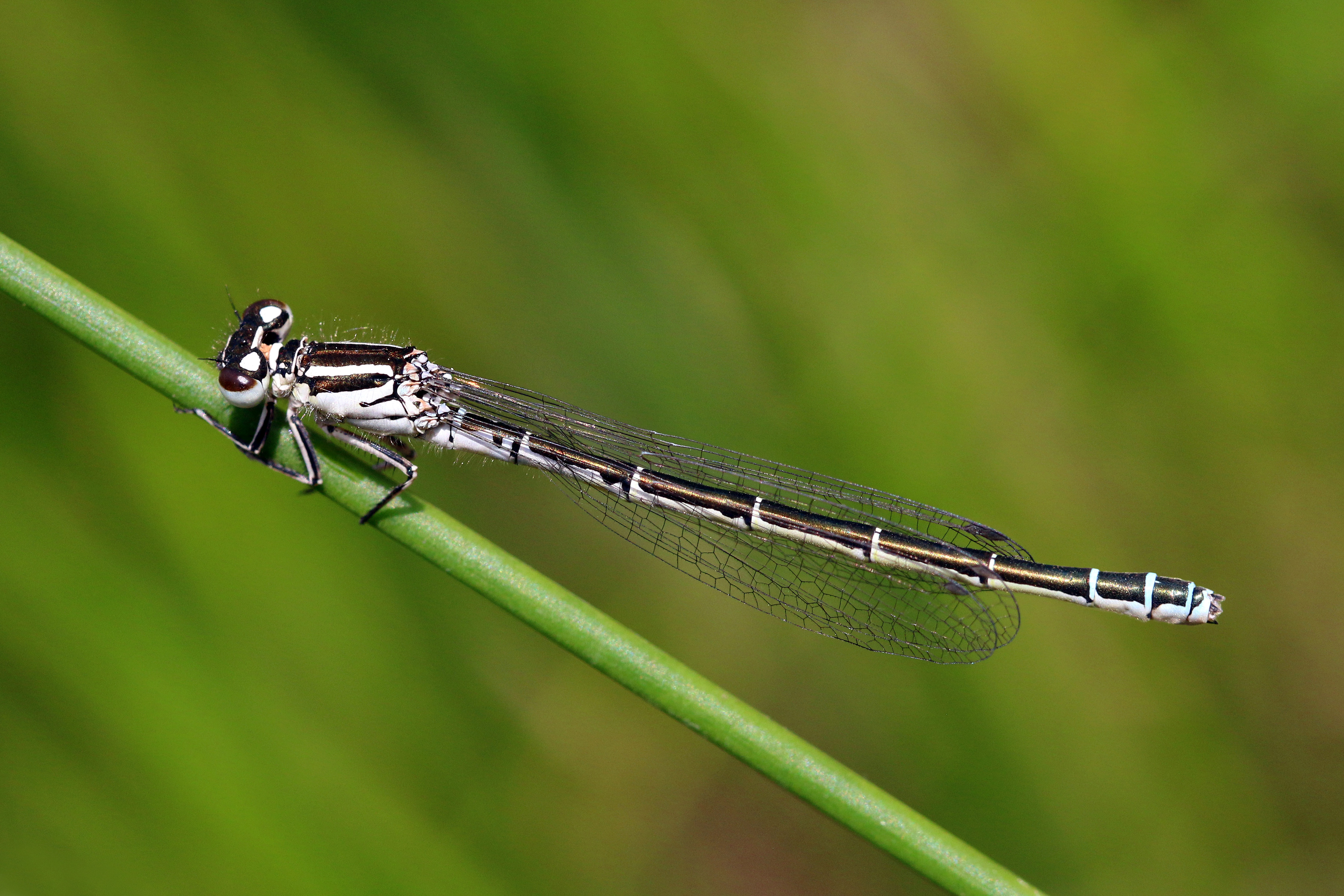 Southern damselfly (Coenagrion mercuriale) female, Dry Sandford Pit, Oxfordshire